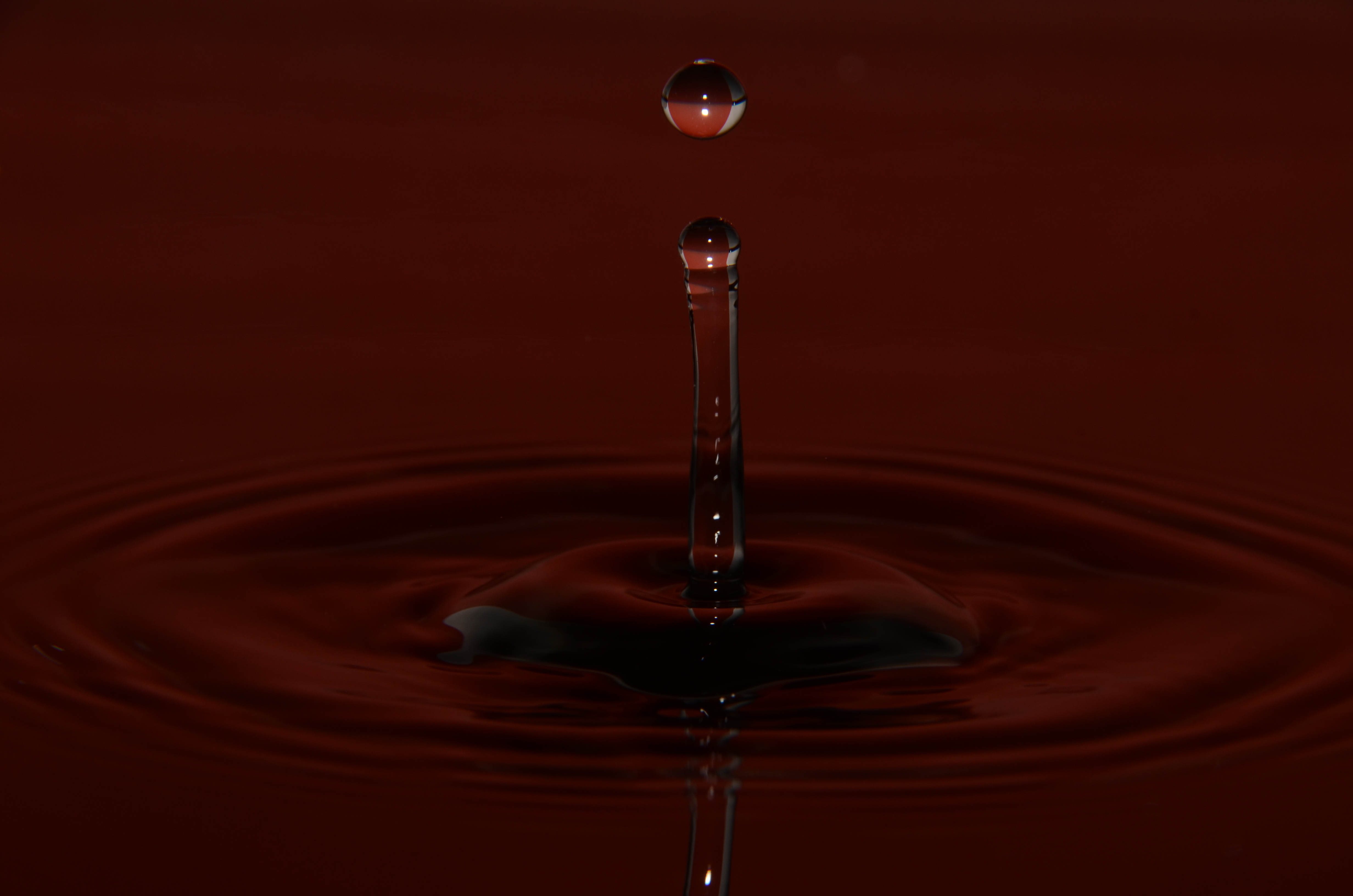 Picture of a splash created by a drop of water. The color comes from a reflection of a red plastic panel.